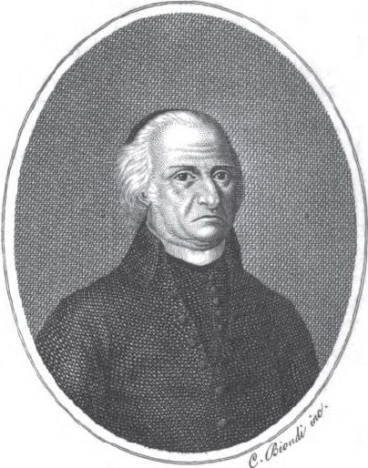 Giovanni Agostino De Cosmi, Sicilian pedagogist and philosopher